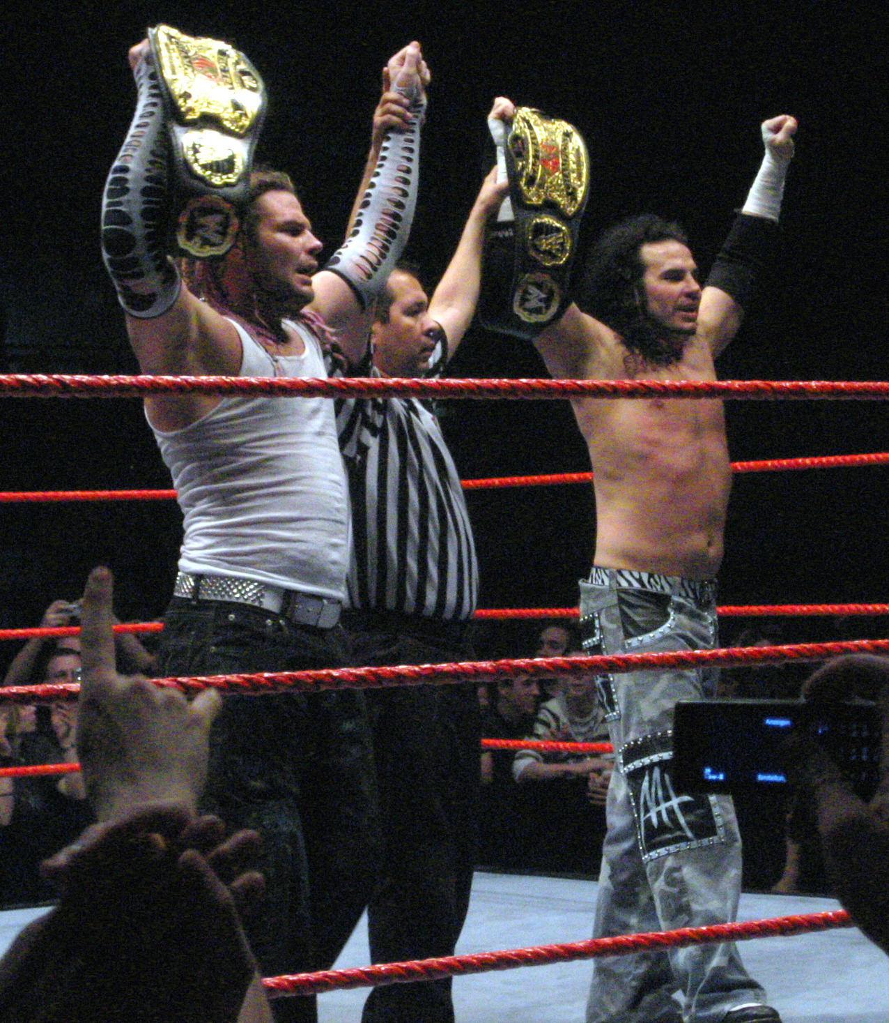 The Hardys (Jeff, far left, and Matt, far right) as World Tag Team Champions.